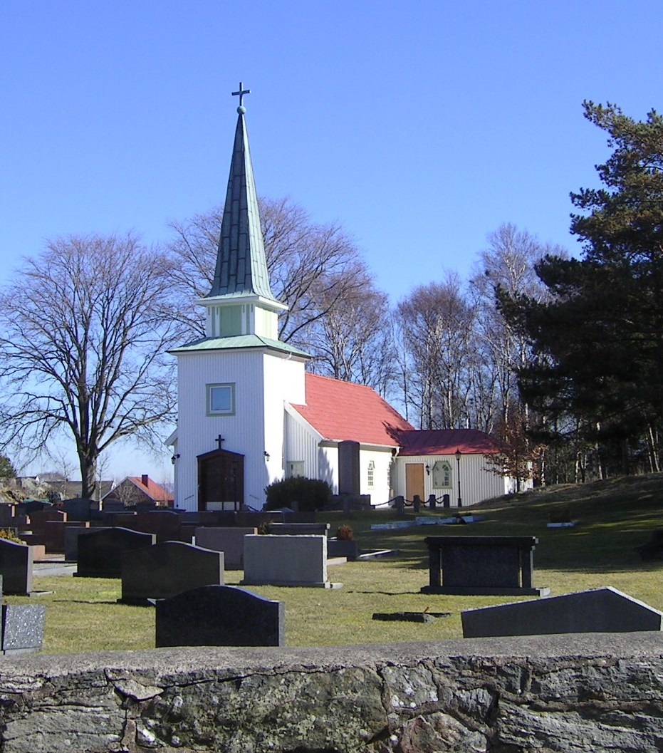 The church building of the Church of Sweden at the island of Donsö in the Southern Gothenburg archipelago.